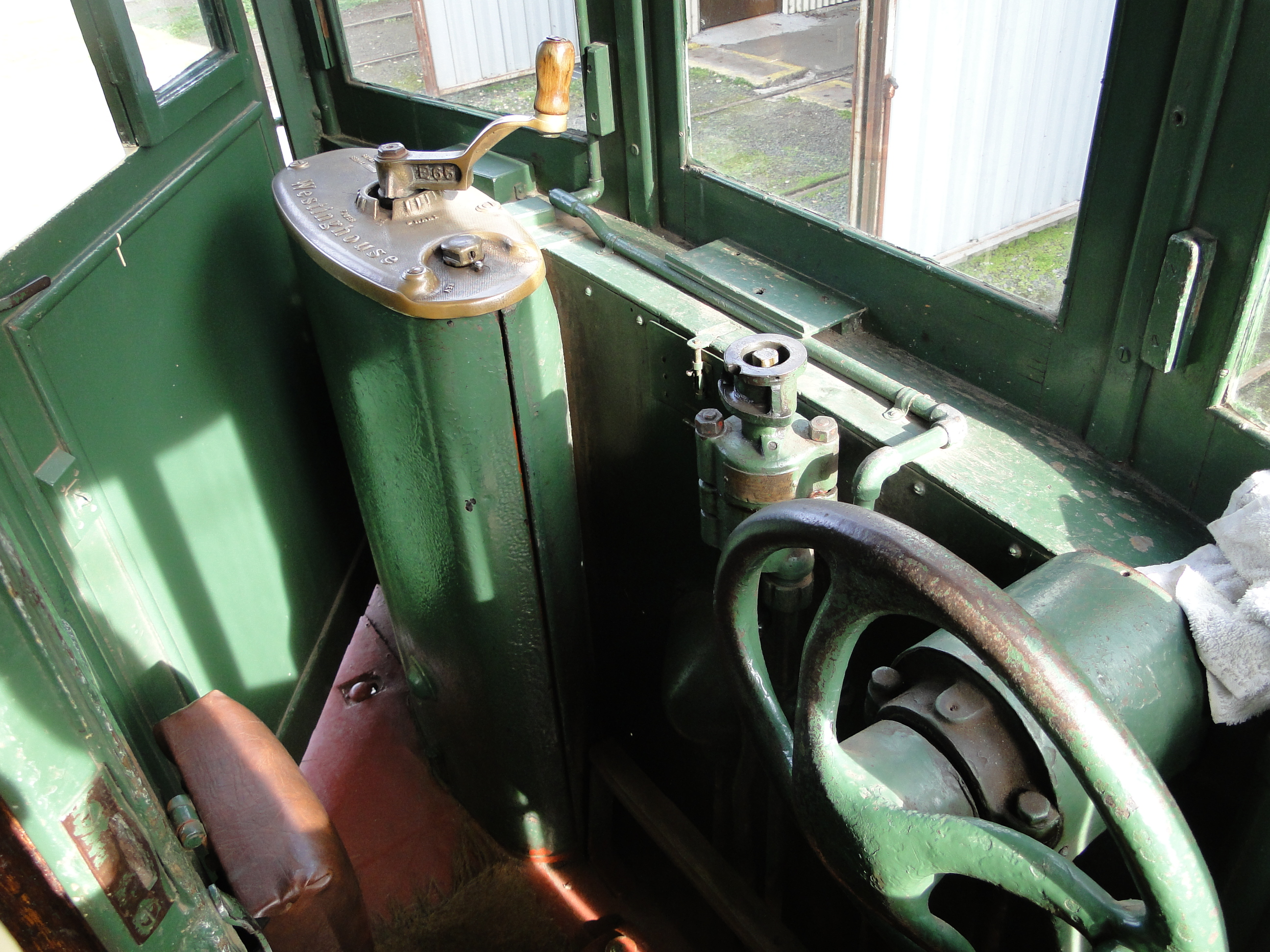 The drivers cabin of Ballarat Tram No.14, formerly Geelong No.29, built in 1915.